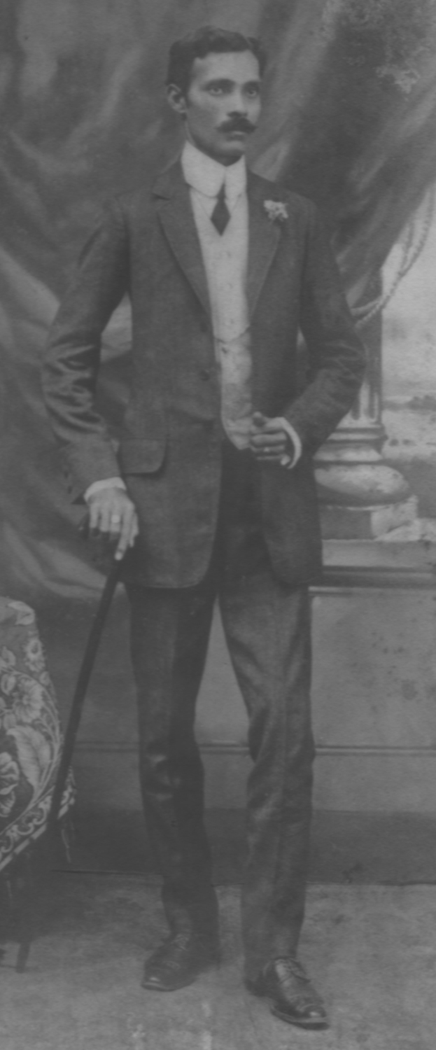 Innocent Sousa (26-07-1879 to 31-07-1962) (Full Name: Inocencio Antonio Mariano De Sousa) from Goa, India was considered to be one of the principal living poets of the world of his time. The brief description of his work along with a poem appeared on page 185 of the book “Principal Poets of the World” published by “The Mitre Press”, Mitre Chambers, London in the year 1931.